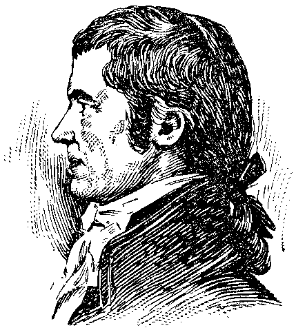 Portrait woodcut of John Marshall, Chief Justice of the U.S. Supreme Court